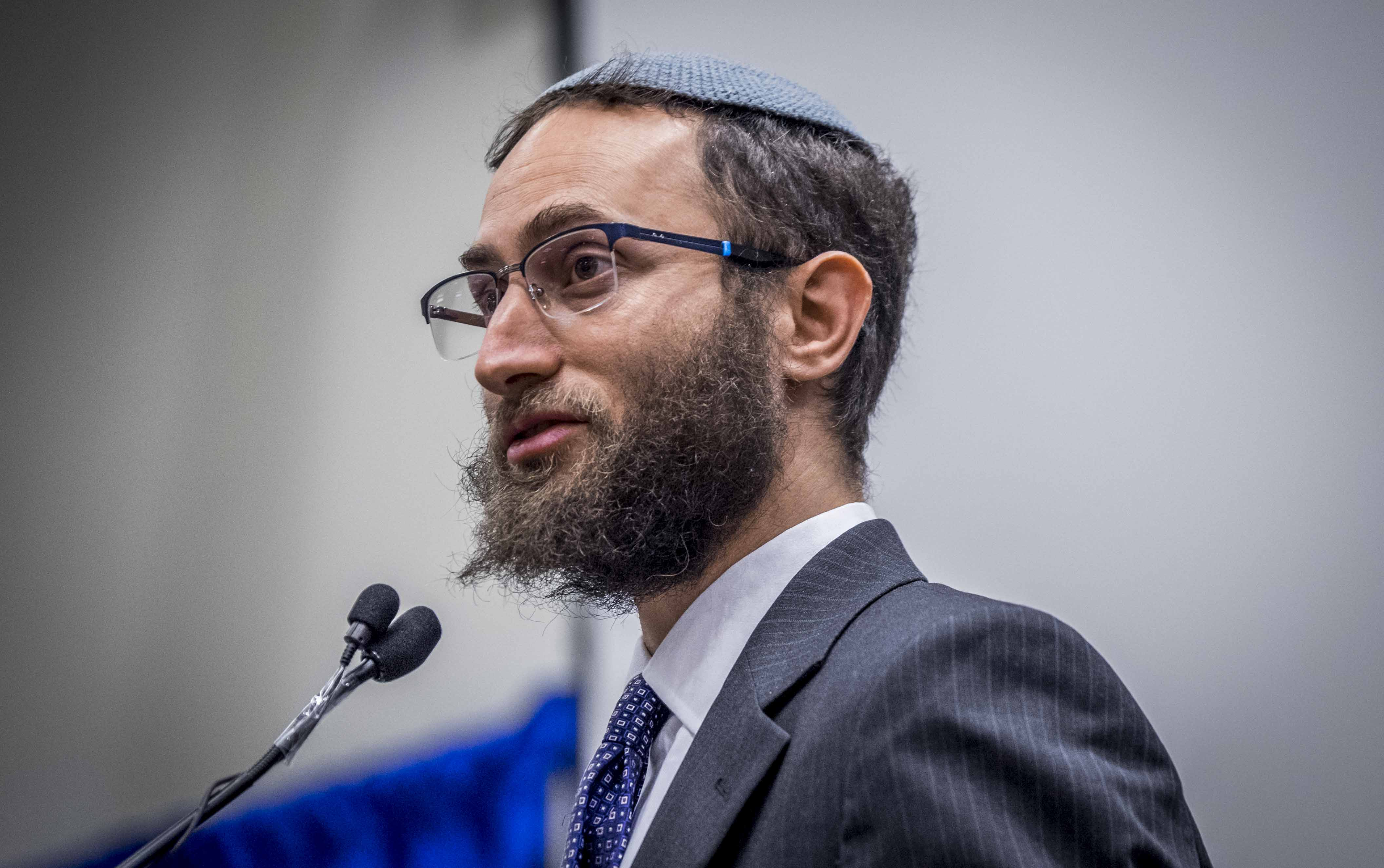 Neril speaking at the DC Symposium